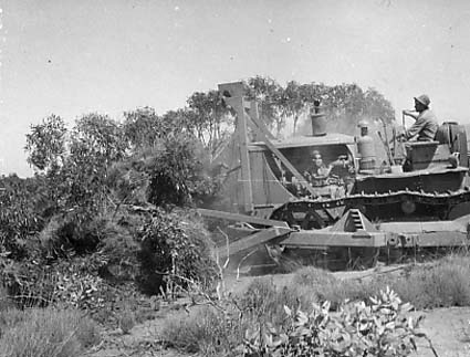 British nuclear tests in Australia - Atomic test site at Maralinga - Temporary Access Road - Watson - Tietkens Well (Direct route approximately 39 metres) - March 1956 - MARA/281